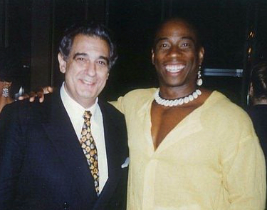 In 1994, Placido Domingo, then the Los Angeles artistic director and noted tenor opera singer, poses in a photograph with American opera star (bass baritone) and actor/activist Stacey Robinson (right). The occasion was the opening night party of the Houston Grand Opera's production of George Gershwin's Porgy & Bess in Los Angeles, California. (Courtesy of photographer Mary Biggs; modifications (cropping, tone) by Tom Sulcer. Exact date is approximate.)